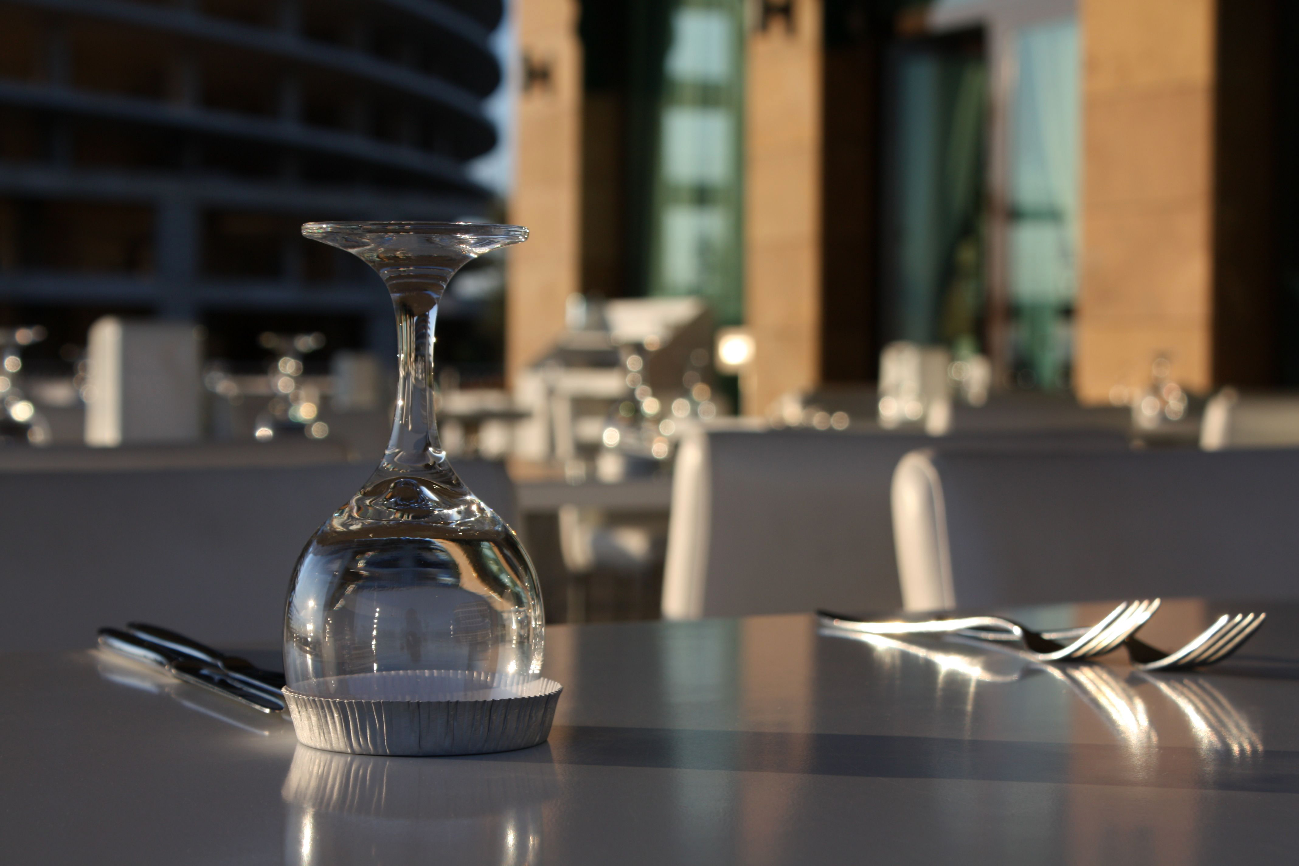 Table appointments at outdoor restaurant of Turkish hotel